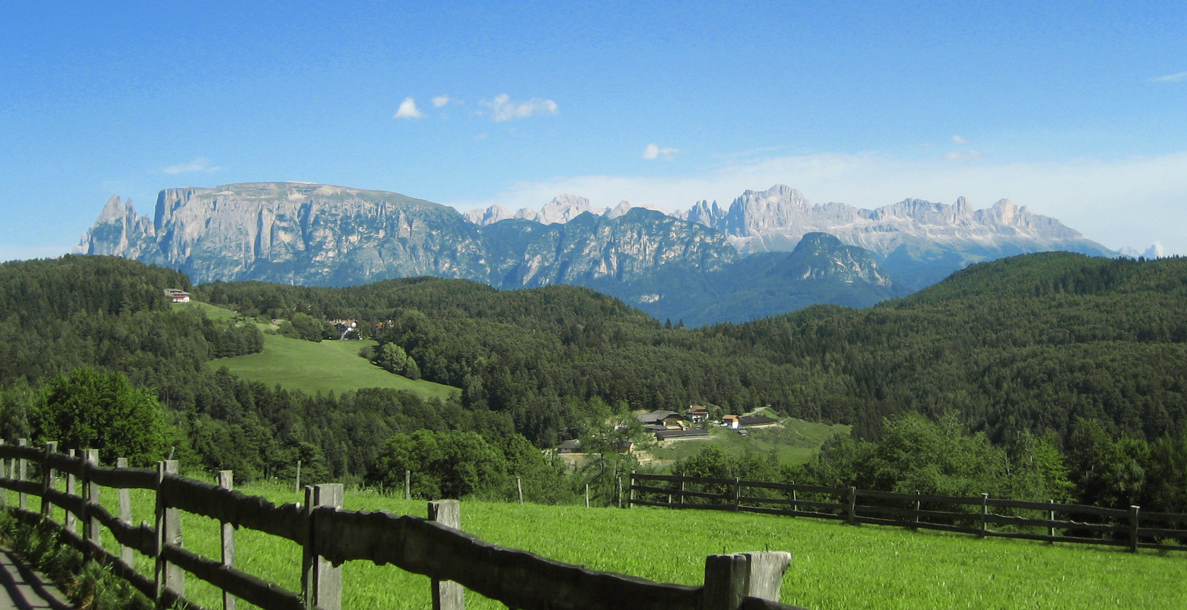 Santner, Schlern, Hammerwand, Tschafon and Rosengarten mountains in South Tyrol, view from Ritten